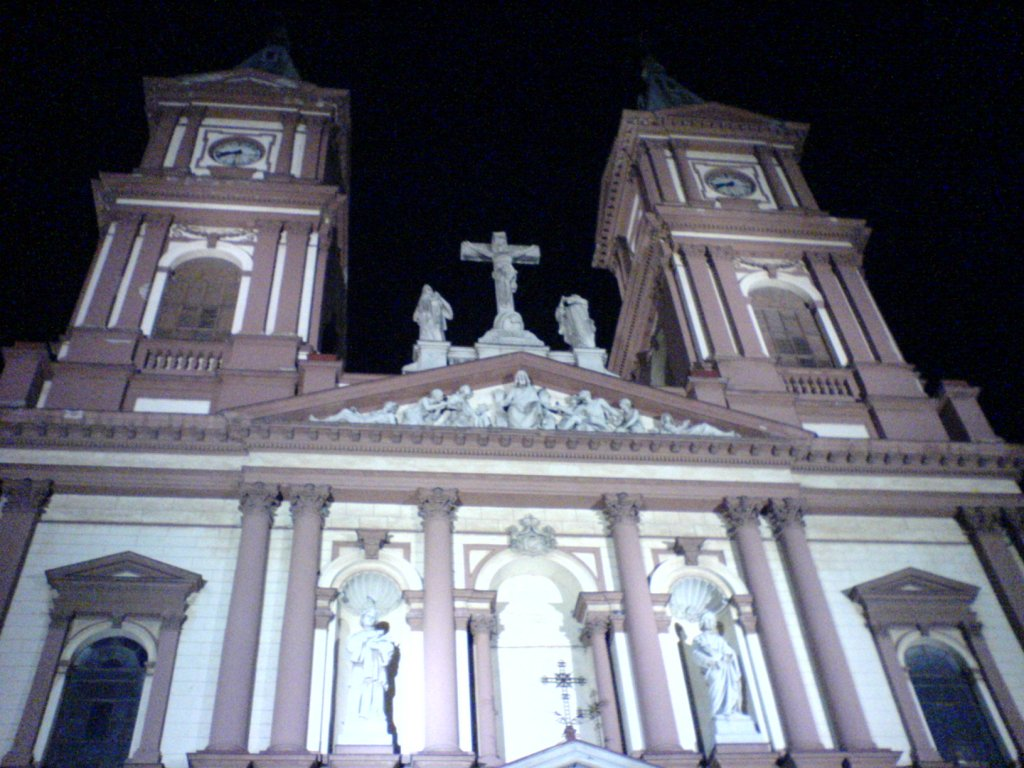 Cathedral of the Divine Saviour, Ostrava.